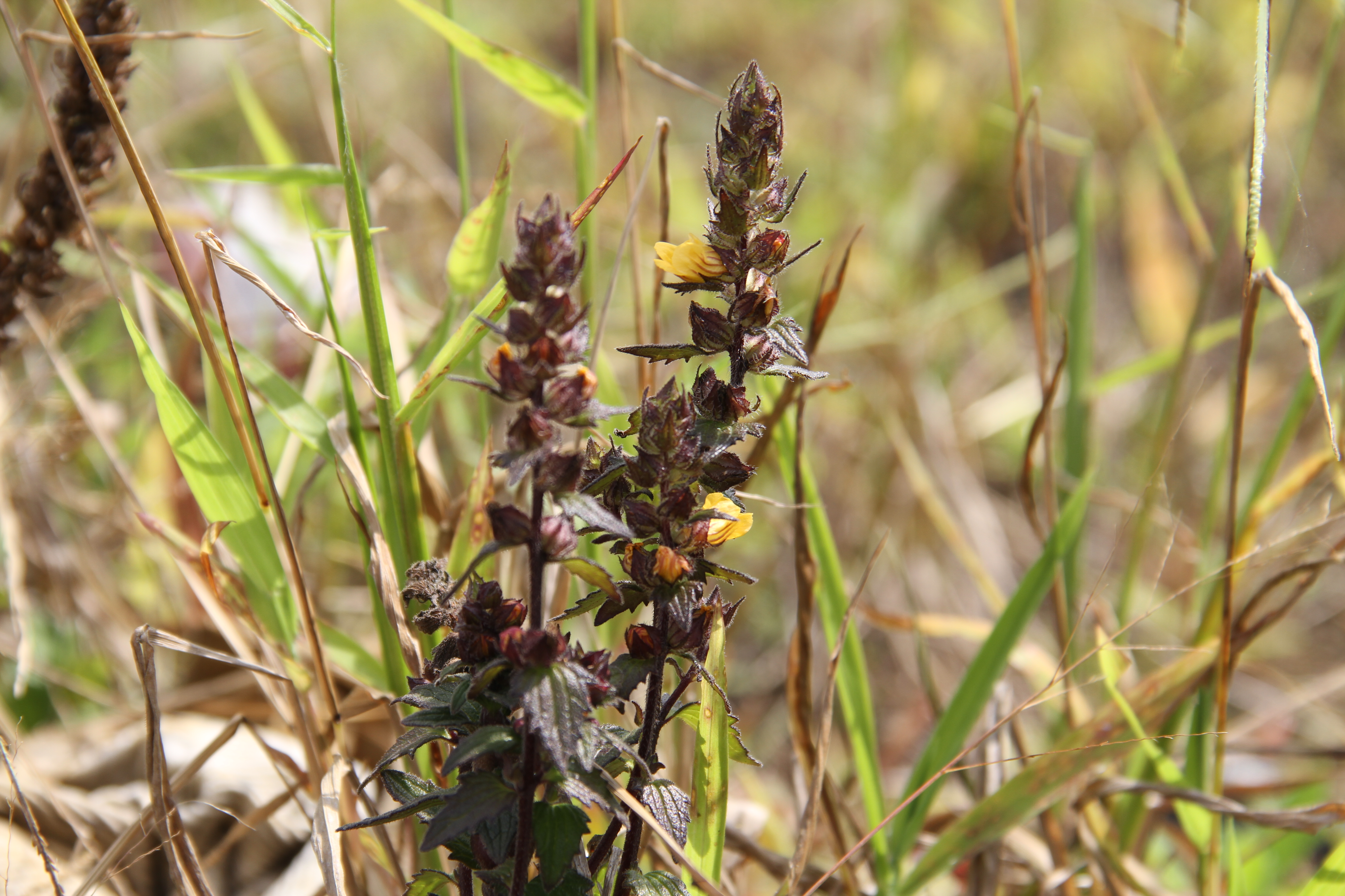 Alectra sessiliflora, along the road between Luba and Moka, Bioko, Guinea Ecuatorial, December 2013 The making of this document was supported by the Community-Budget of Wikimedia Germany.